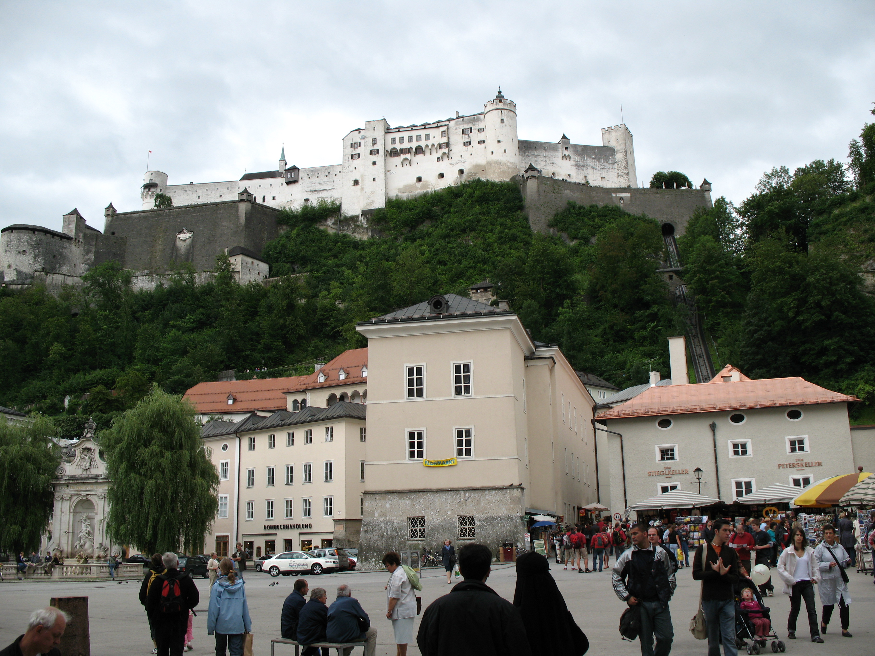 High Fortress over Capital Plaza, Salzburg, Austria